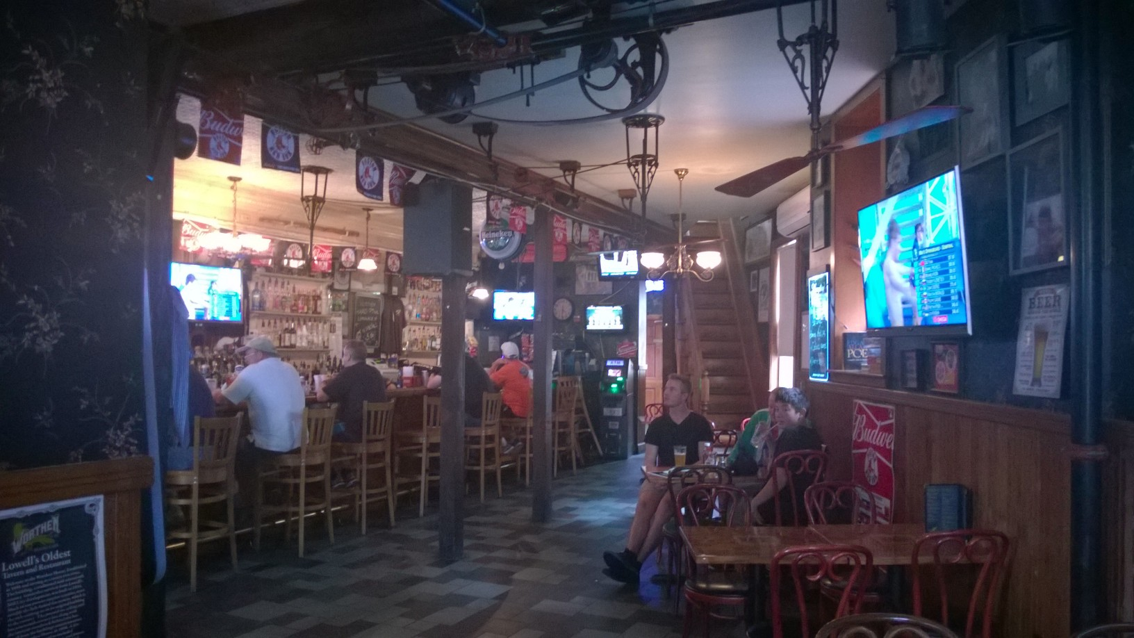 Interior of Old Worthen House in Lowell Massachusetts. 141 Worthen Street, Lowell, Massachusetts. Oldest bar in Lowell, built in 1834 and part of the Lowell National Park down the street from the Whistler birthplace. In the NRHP for its unusual pulley-driven fan system, which is one of only four in the United States and the only existing set known to be in its original location in the country. It can be turned on at a patron’s request. The fan was originally propelled by steam and served to keep flies off the dry goods. Today it is powered by electricity.